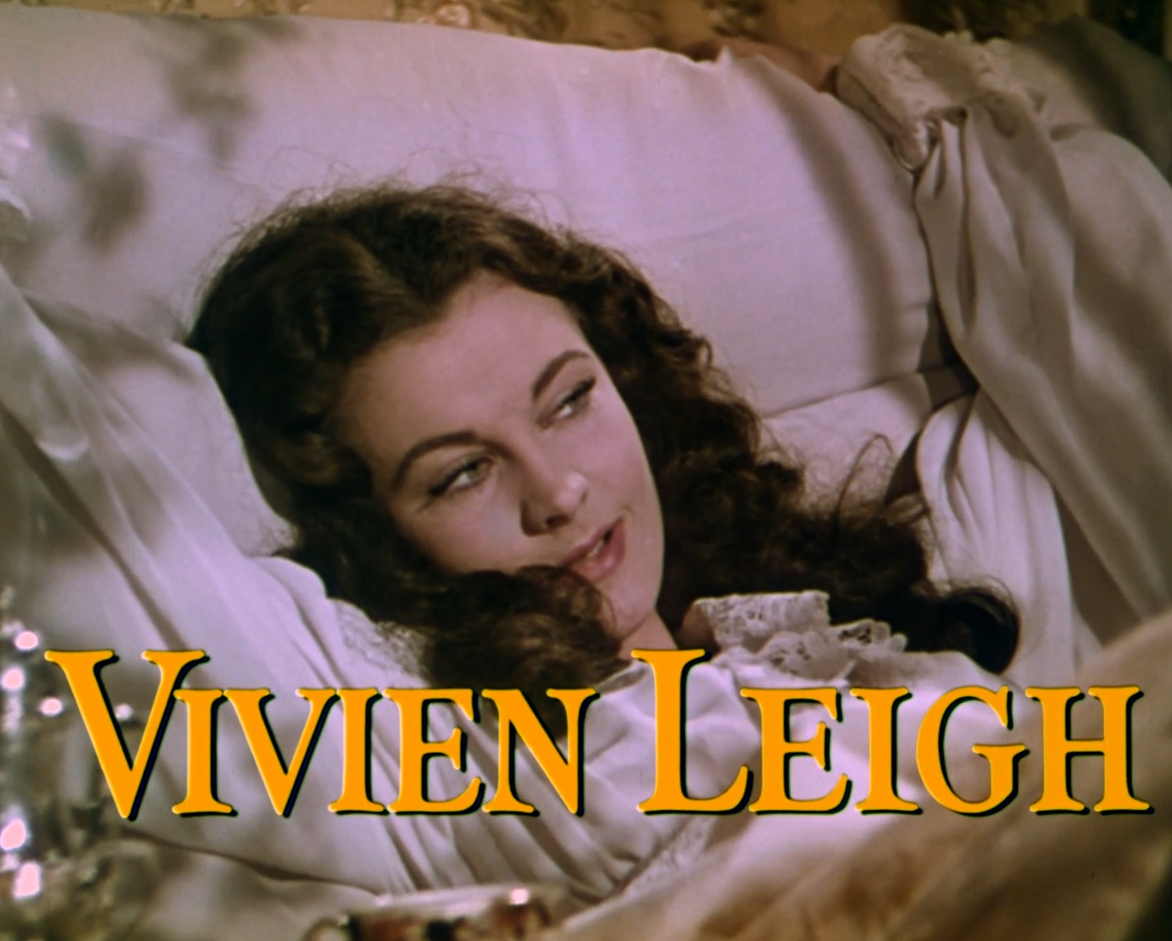 Cropped screenshot of Vivien Leigh from the trailer for the film Gone with the Wind